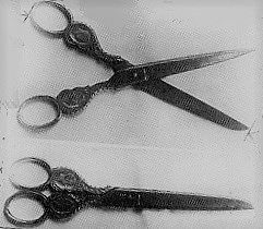 Image depicts the scissors used by serial killer Peter Kürten, photographed in 1930.